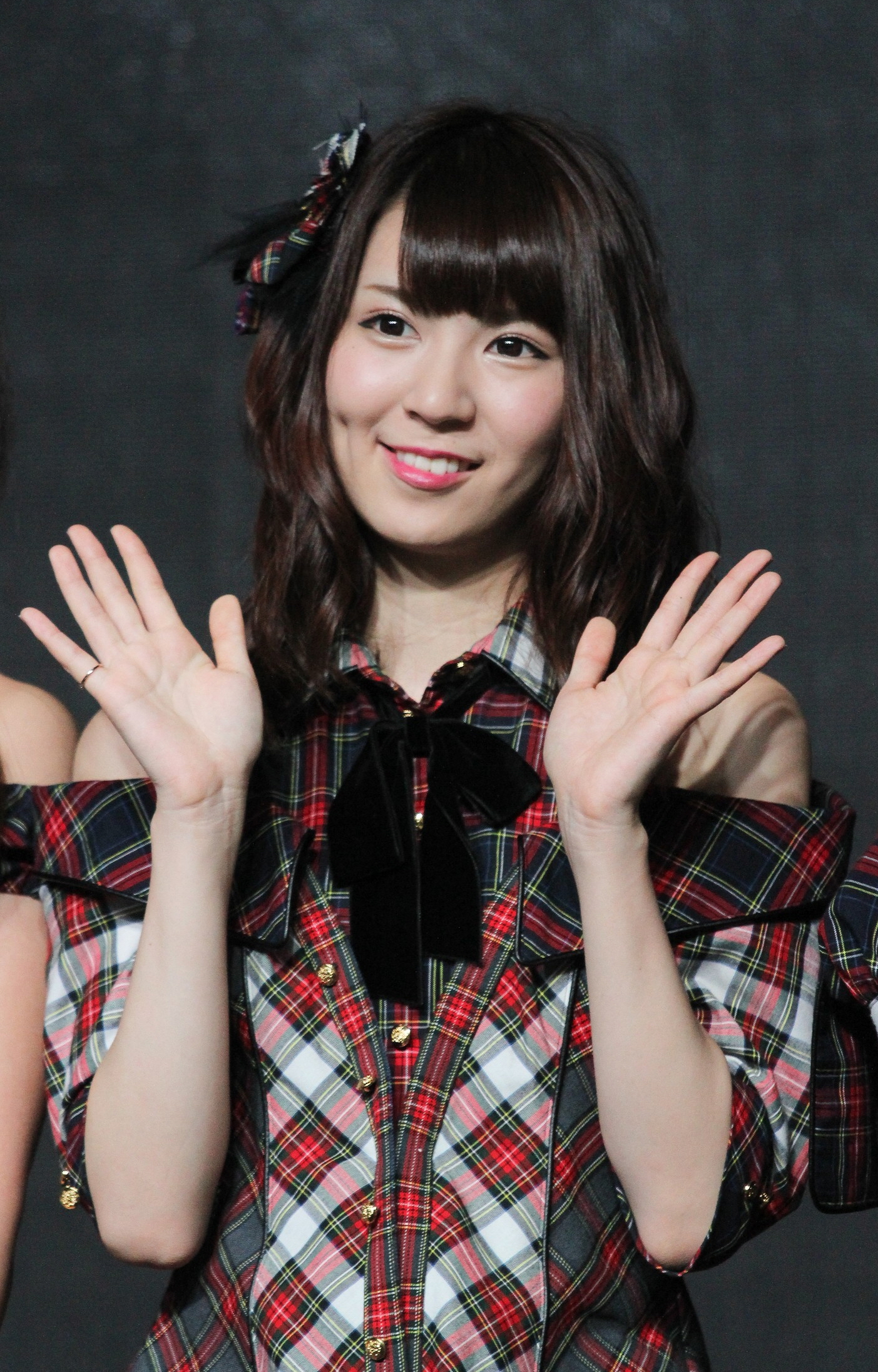 130413 AKB48 at Tokyo Auto Salon Singapore Meet & Greet 2 and Performance